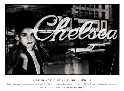 Livro Chelsea Hotel